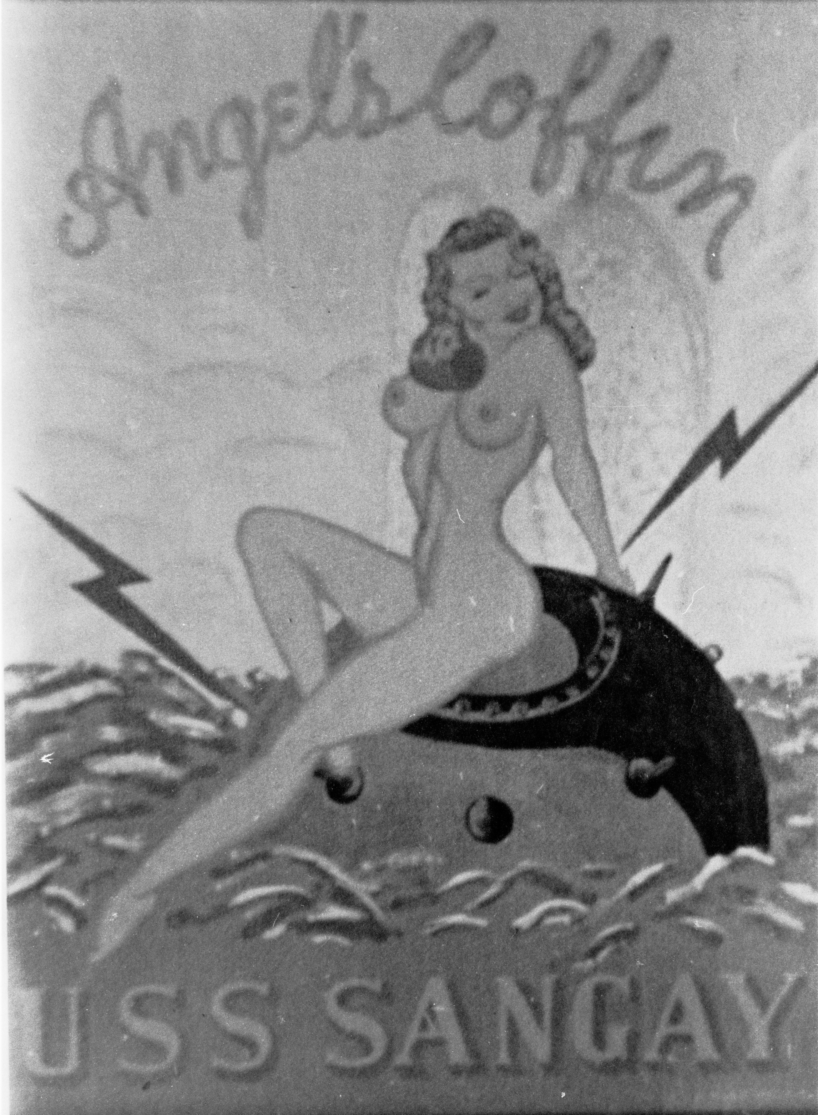 View of a painting of the motto of the U.S. Navy ammunition ship USS Sangay (AE-10). The original artwork is presumed to have been executed by U.S. Navy personnel associated with the ship. The original artwork is being displayed at the Soldiers and Sailors Museum in Pittsburgh, Pennsylvania (USA).